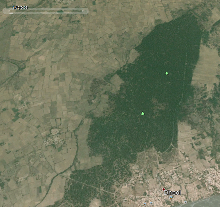 یہ دھول کلاں جنگل کی 2005 کی تصویر ہے جب ابھی اسے کاٹا نہیں گیا تھا